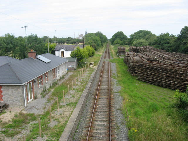 Railway Station, Duleek, Co. Meath Closed station on the former GNRI Drogheda to Navan branch line, viewed from Commons Bridge. Cement works at Platin in the distance.